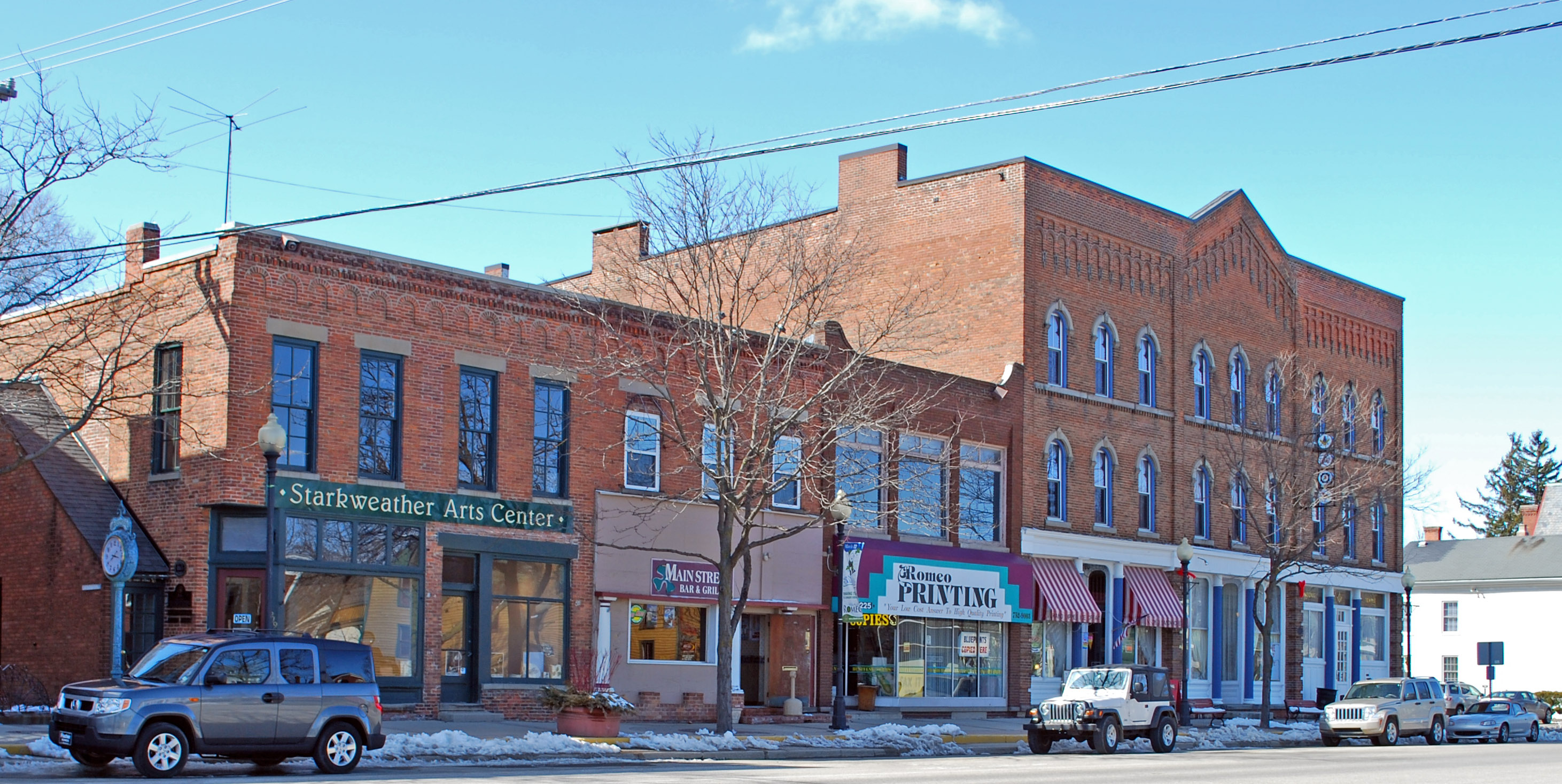 Romeo Historic District (Main St) in Romeo, Macomb County MI